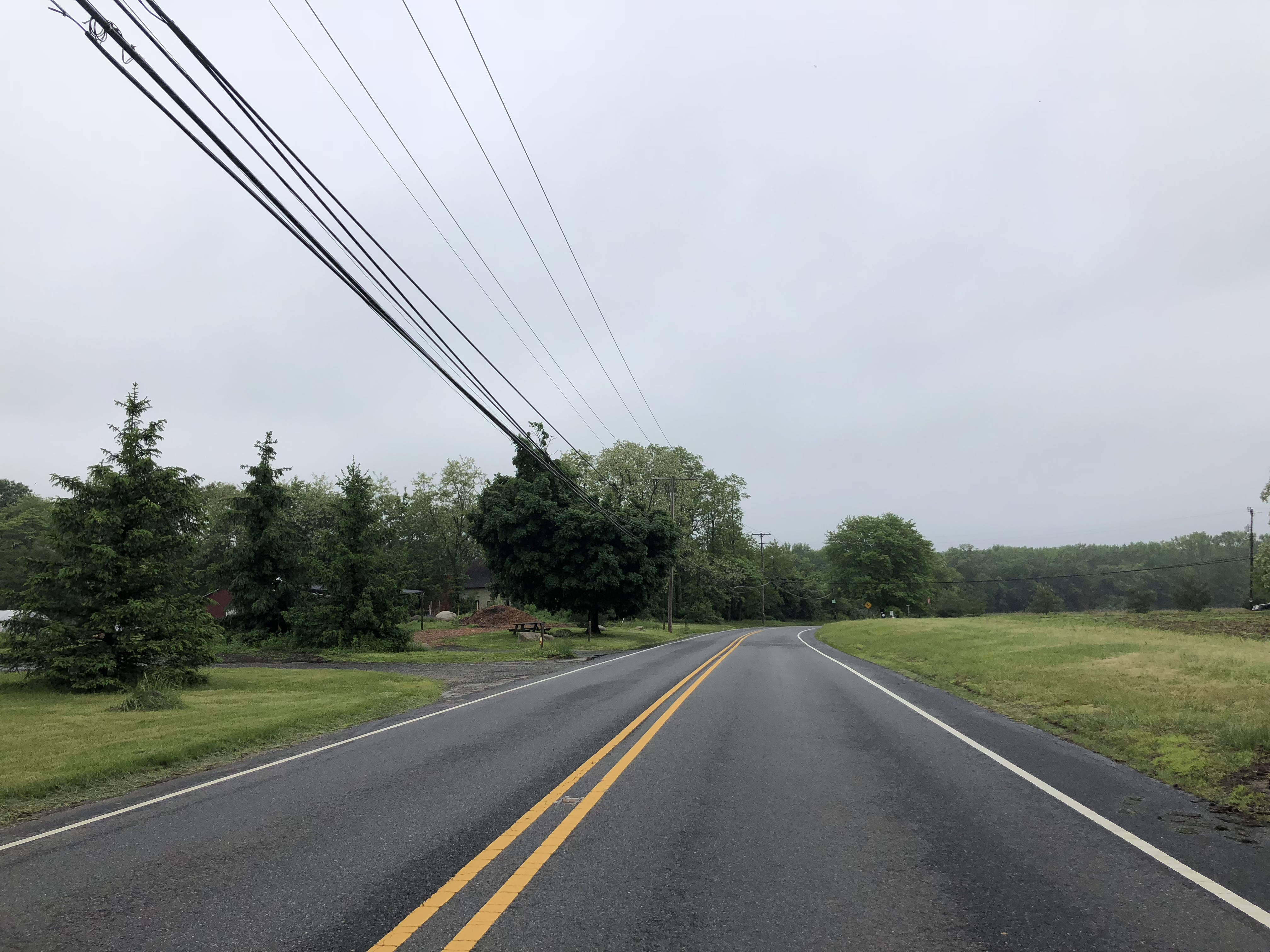 View south along Monmouth County Route 571 (Rochdale Avenue) at Nurko Road in Roosevelt, Monmouth County, New Jersey